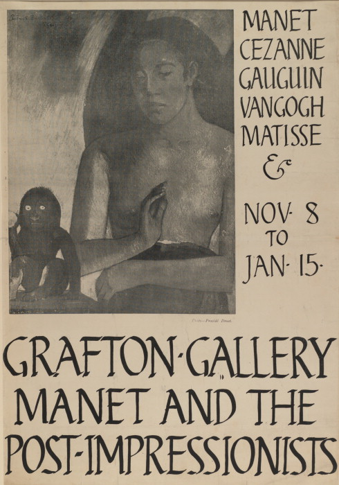 Grafton Gallery Manet and the Post-Impressionists, poster for an exhibition in London. The image is extracted from Poèmes barbares by Paul Gauguin.